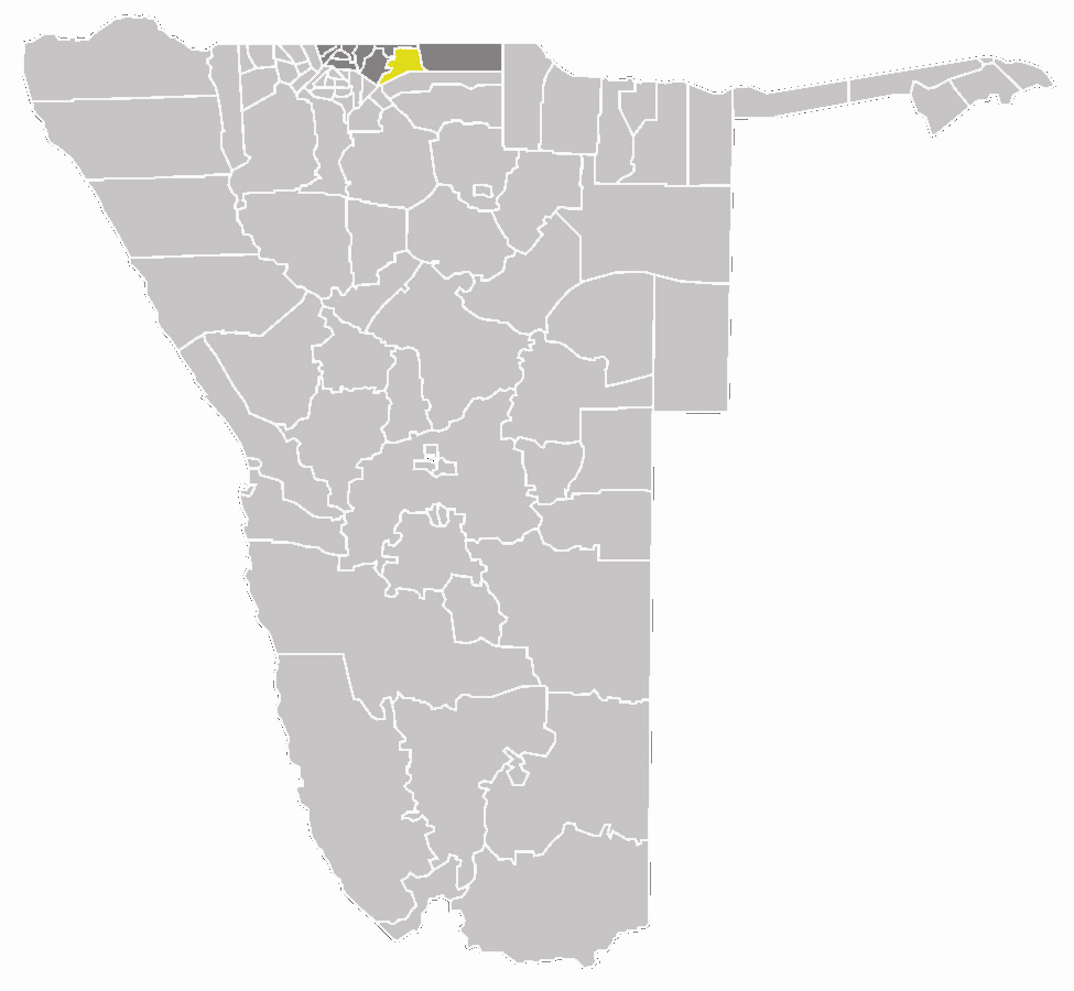 map of the Epembe constituency within the Ohangwena region, Namibia